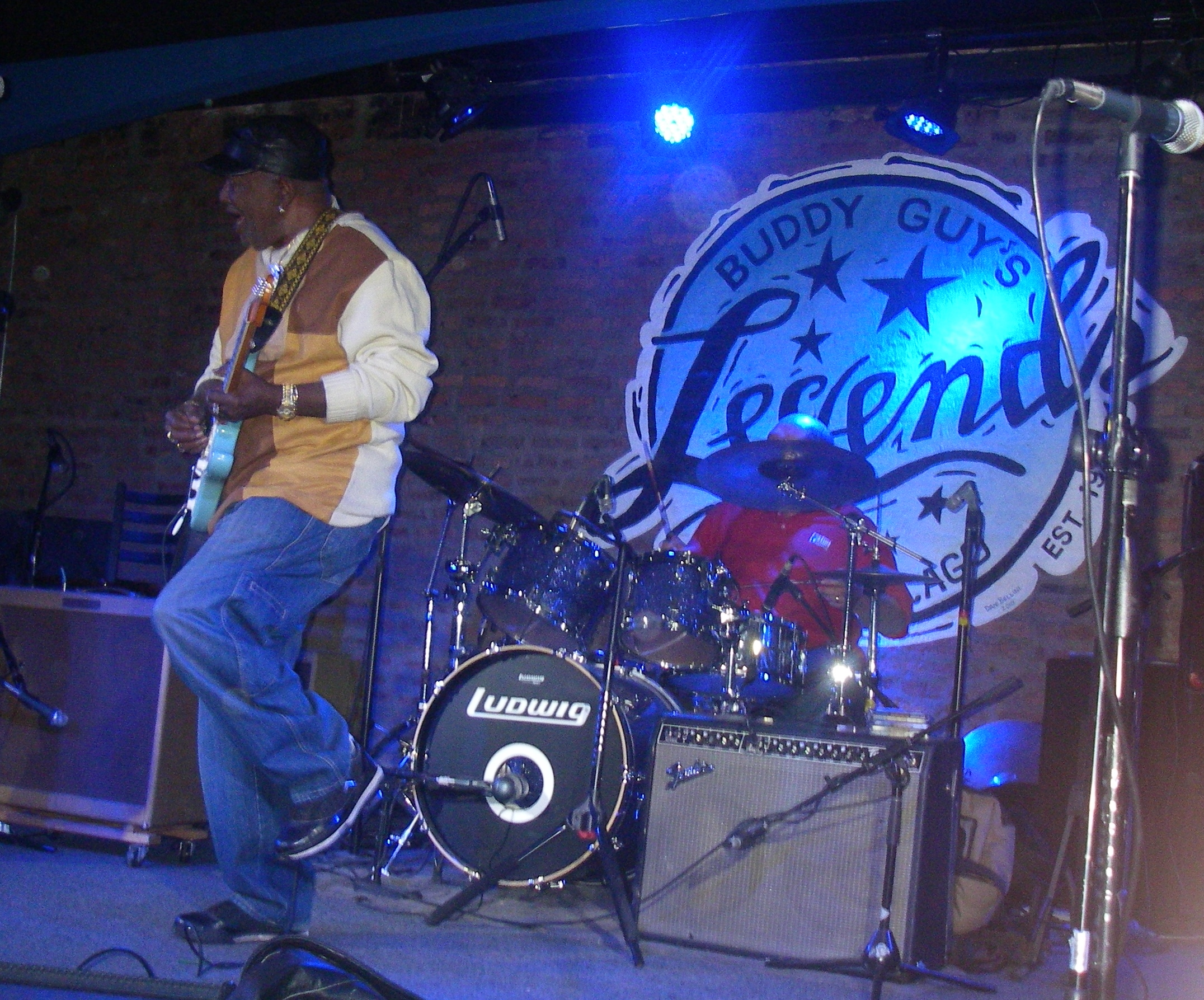 Linsey Alexander live at the Legends on November 26, 2012.